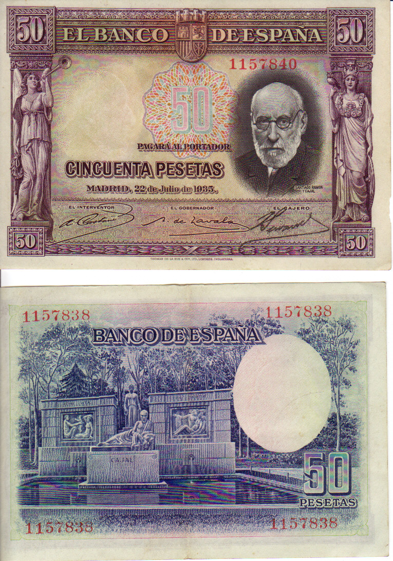 Spanish republic, bank note 50 peseta, observe and reverse Scan from own collection